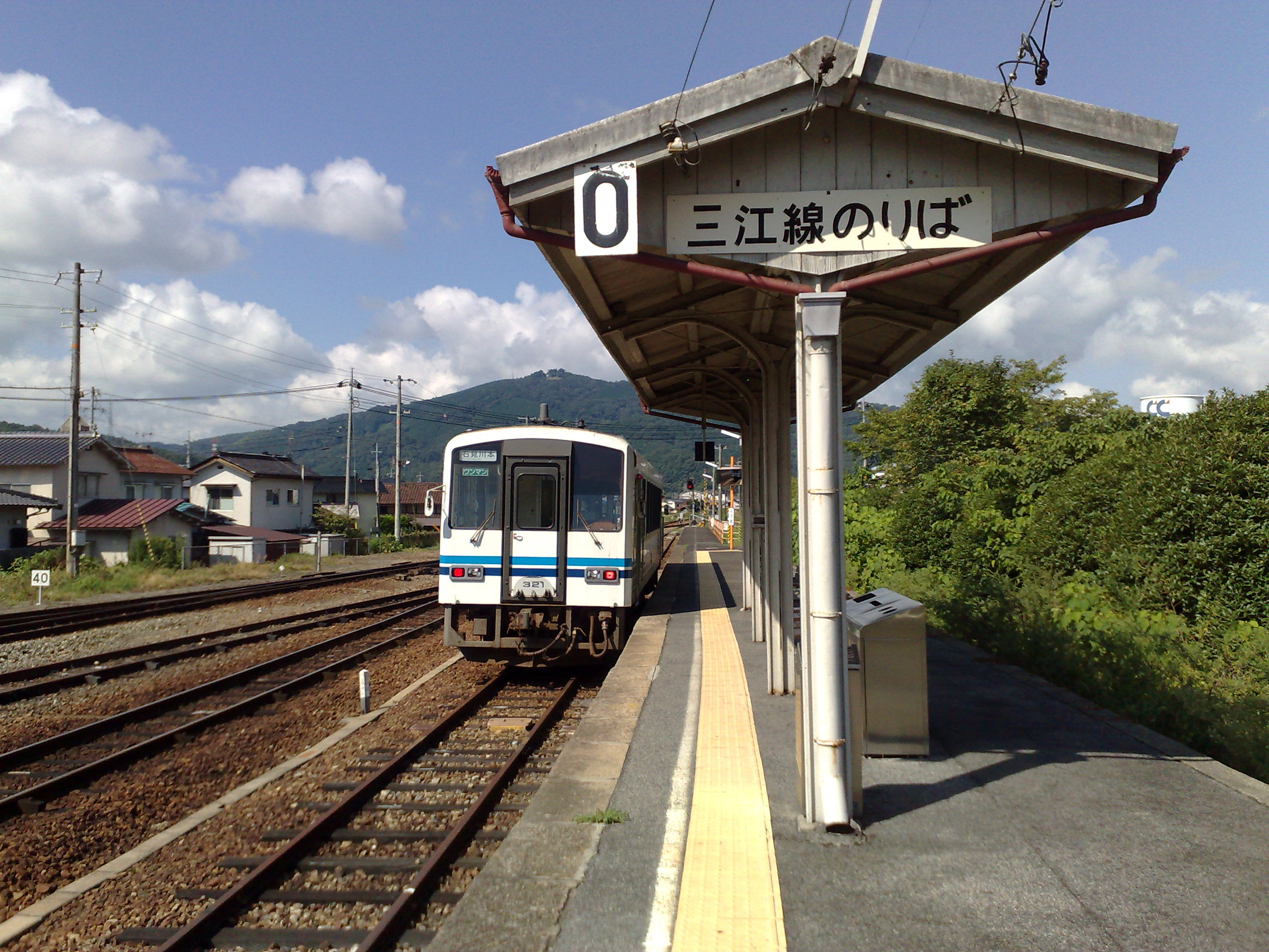 JR West Miyoshi Station platform 0 for the Sanko Line